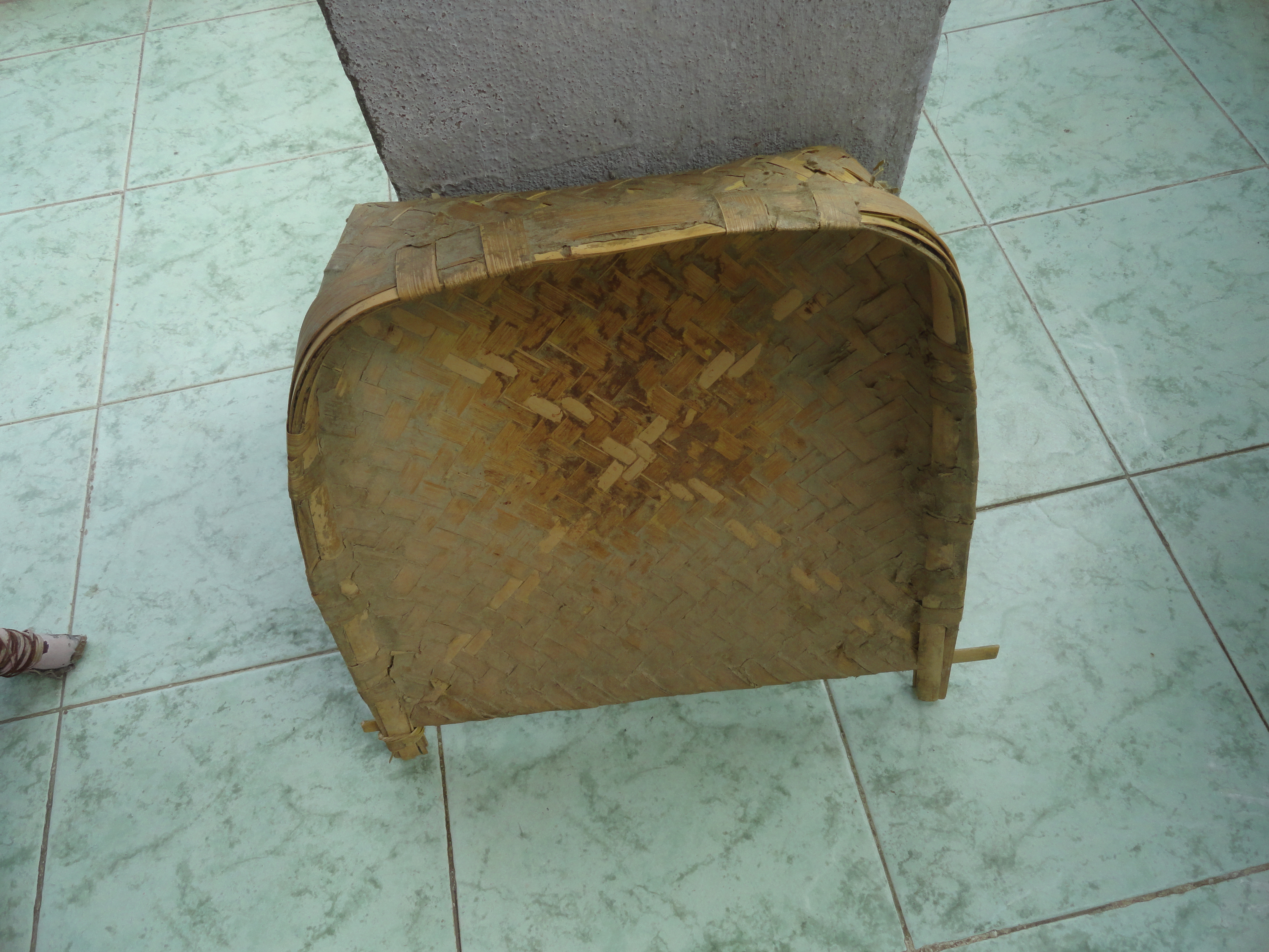 ఇది ఒక చేట.